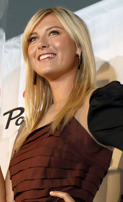 Original Story here: My story: As my last story for my internship at PC Magazine, I went to South St Seaport to shoot Maria Sharapova's official unveiling of her Canon Powershot Diamond lineup that people could win through a contest on Canon's website. The other photographers next to me were from NY Daily News, Newsday, AP, Getty, NY Post and I believe the NYTimes. And they were all using Canons so it felt odd for me to be the only guy there using Olympus on the front lines right in front of her. What made me really happy though was the fact that the Post photographer (who reeked of alcohol) kept saying that I wasn't allowed to stand next to him because he didn't have enough room to take his shot. The Canon reps fixed that and let me stay there because I had previous reservations. I took my flash off because my mentor (Pulitzer Winner John Williams at Newsday) taught me to shoot that way. But I synched my timing to shoot with the other photographers. To make a long story short--the only photos of the event that ended up being published were mine and AP's. The Post and Daily News used AP's. But mine...were all over the net. It made me quite happy and made me realize that Olympus can hold its own against the bigger guys in terms of getting the right shot. That being said though, I still plan to move back to Canon (I used to use them) because they do better in low light and give me the features I need. Also seen here on my article, "8 Great Tips to Get More Out of Your Camera Batteries" And here